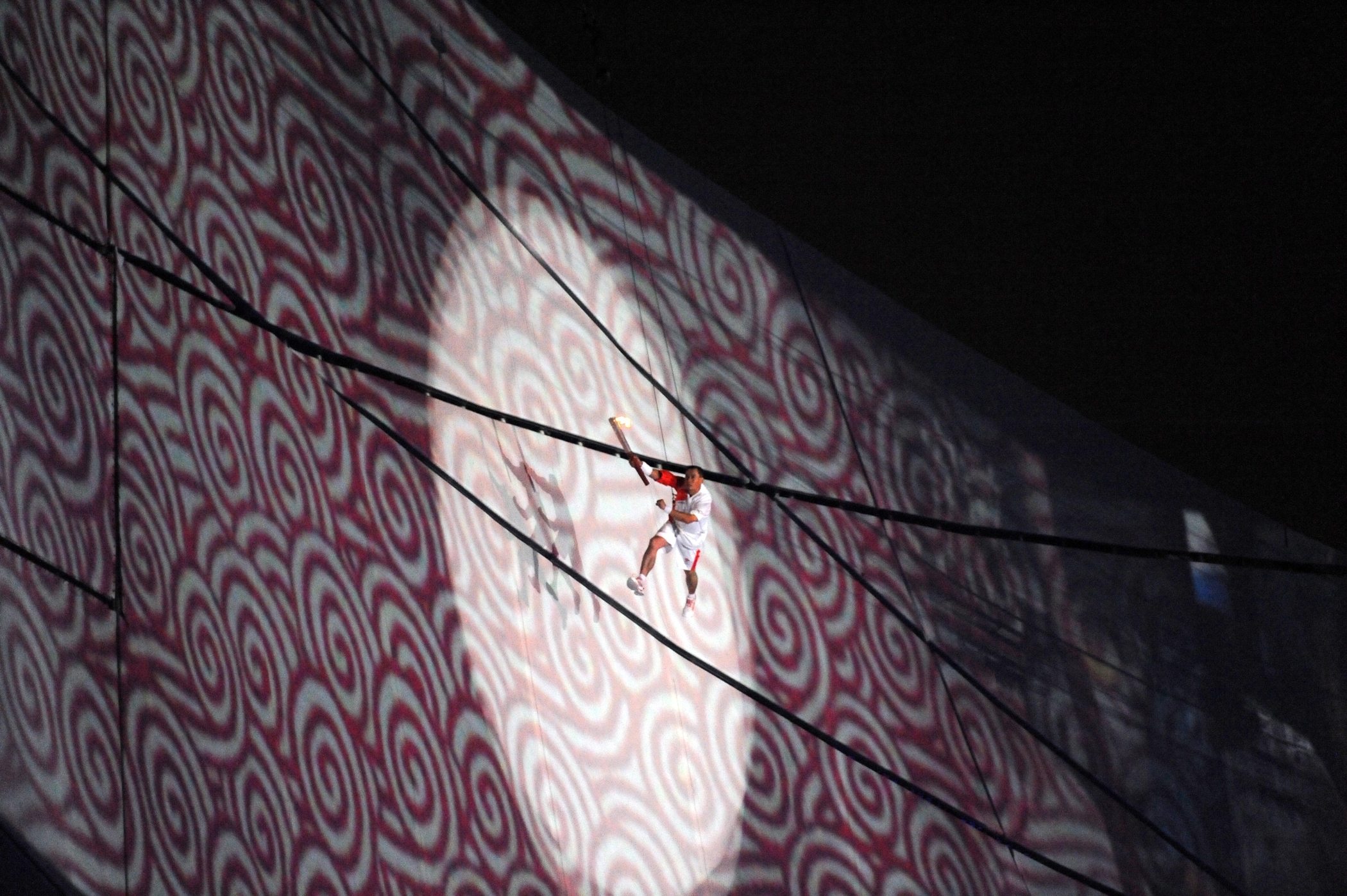 Chinese gymnast Li Ling, who won three Gold, two Silver and one Bronze medals at the 1984 Summer Games in Los Angeles, carries the Olympic Torch while running around the top inner rim of the Bird's Nest National Stadium during the Opening Ceremony of the 2008 Olympic Games in Beijing on August 8th.